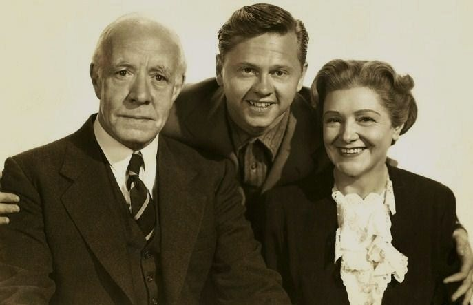 L. to R. : Lewis Stone, Mickey Rooney & Fay Holden in Love Finds Andy Hardy - publicity still (original image damaged, modified and cropped : see source)